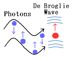 Photon is a particle or wave? The photoelectronic effects and Compton effects can be explained by the electromagnetic waves not using the photons particles. in more detail. (Photon is particle?)